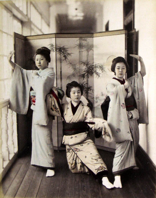 Three girls in furisode kimonos posing on an engawa [veranda]. Hand-coloured albumen silver print by Adolfo Farsari, c.1885.